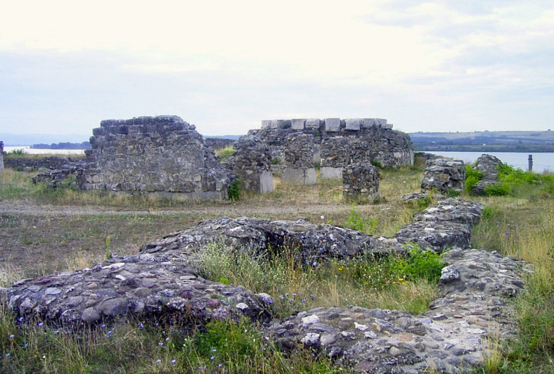 Drobeta-Turnu Severin, ruins of the roman Drobeta at the Danube 2004Română: Drobeta-Turnu Severin, ruine ale orașului roman Drobeta pe Dunăre 2004